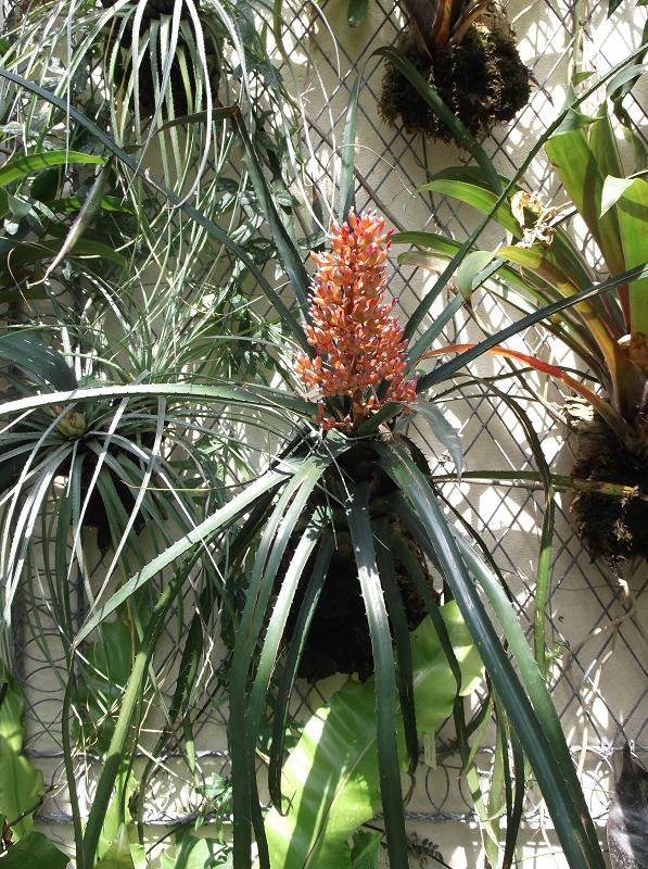 Aechmea polyantha in Kew Gardens, England.